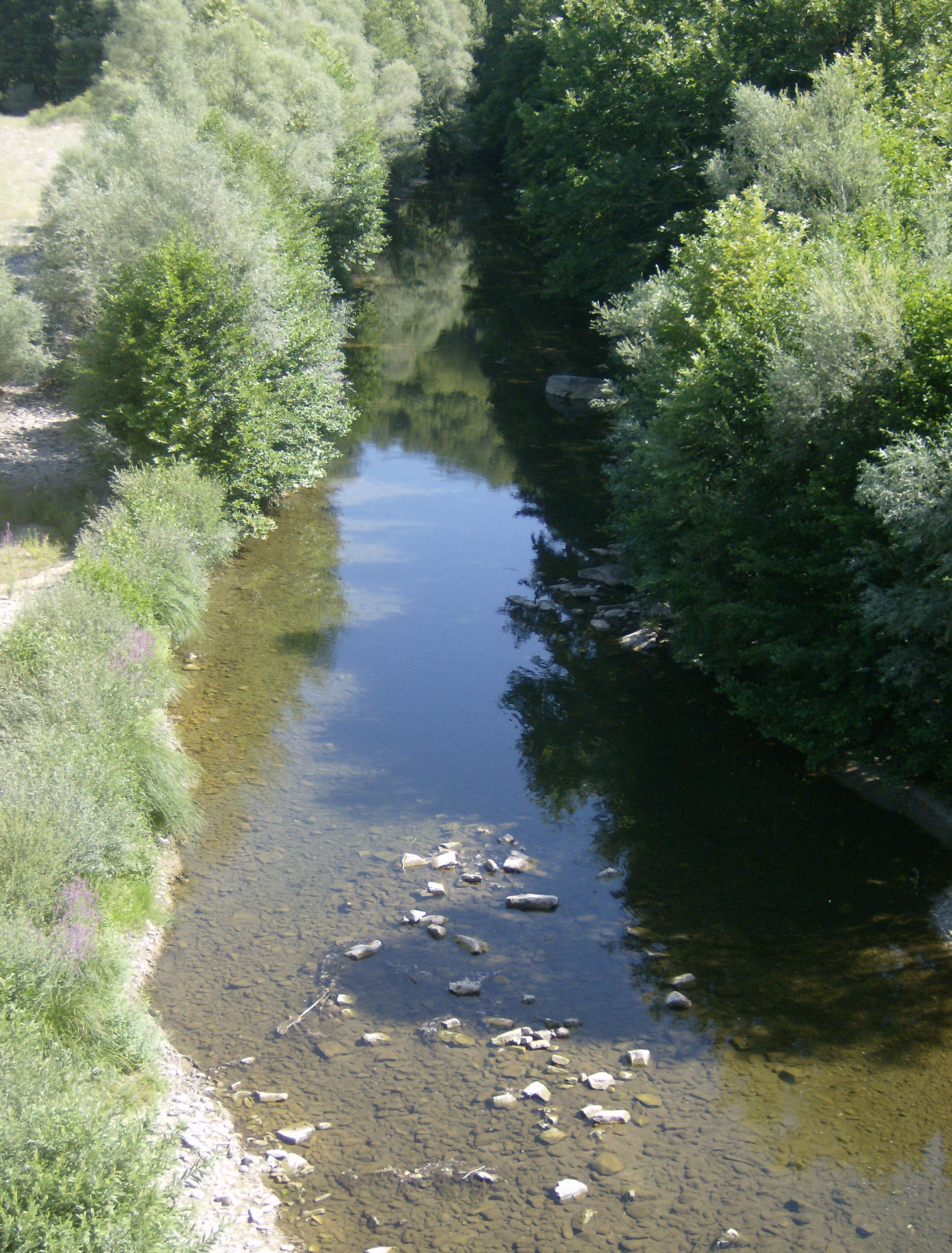 Byala reka, near Meden buk